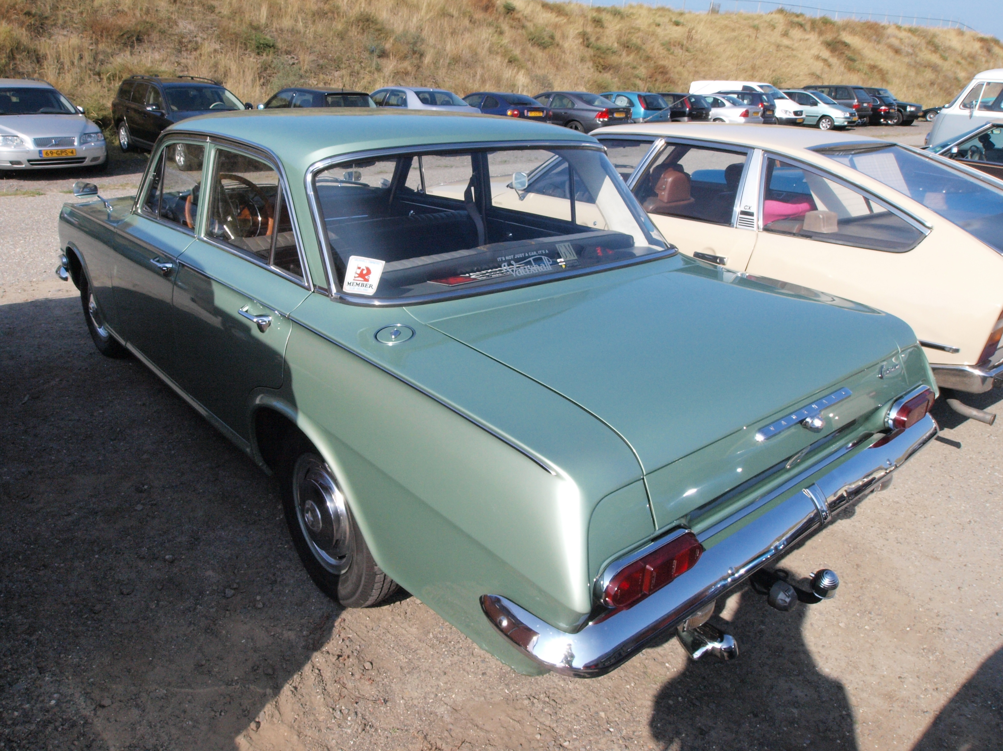 Photographed at the Nationaal Oldtimer Festival Zandvoort 2009, The Netherlands. OLYMPUS DIGITAL CAMERA